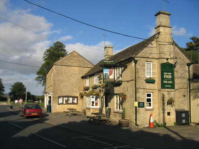 Milton-under-Wychwood, Oxfordshire: The Quart Pot public house and one of the village stores in the centre of the village.